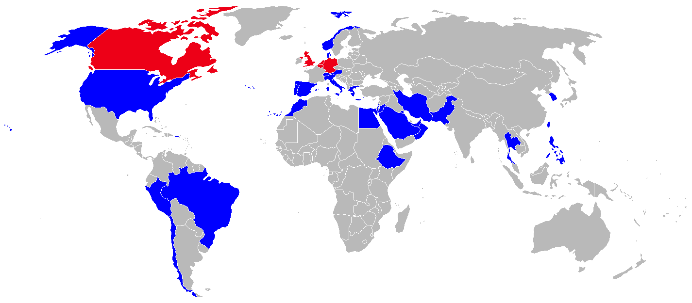 Map showing operators of M109 howitzer. Current users in blue, former users in red.